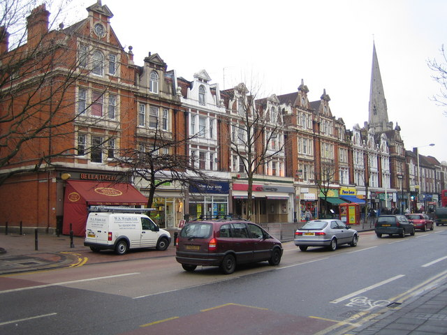 Ealing: New Broadway, W5. The parade of shops on the north side of New Broadway between the Town Hall and the Church of Christ the Saviour, the spire of which can be seen to the right.